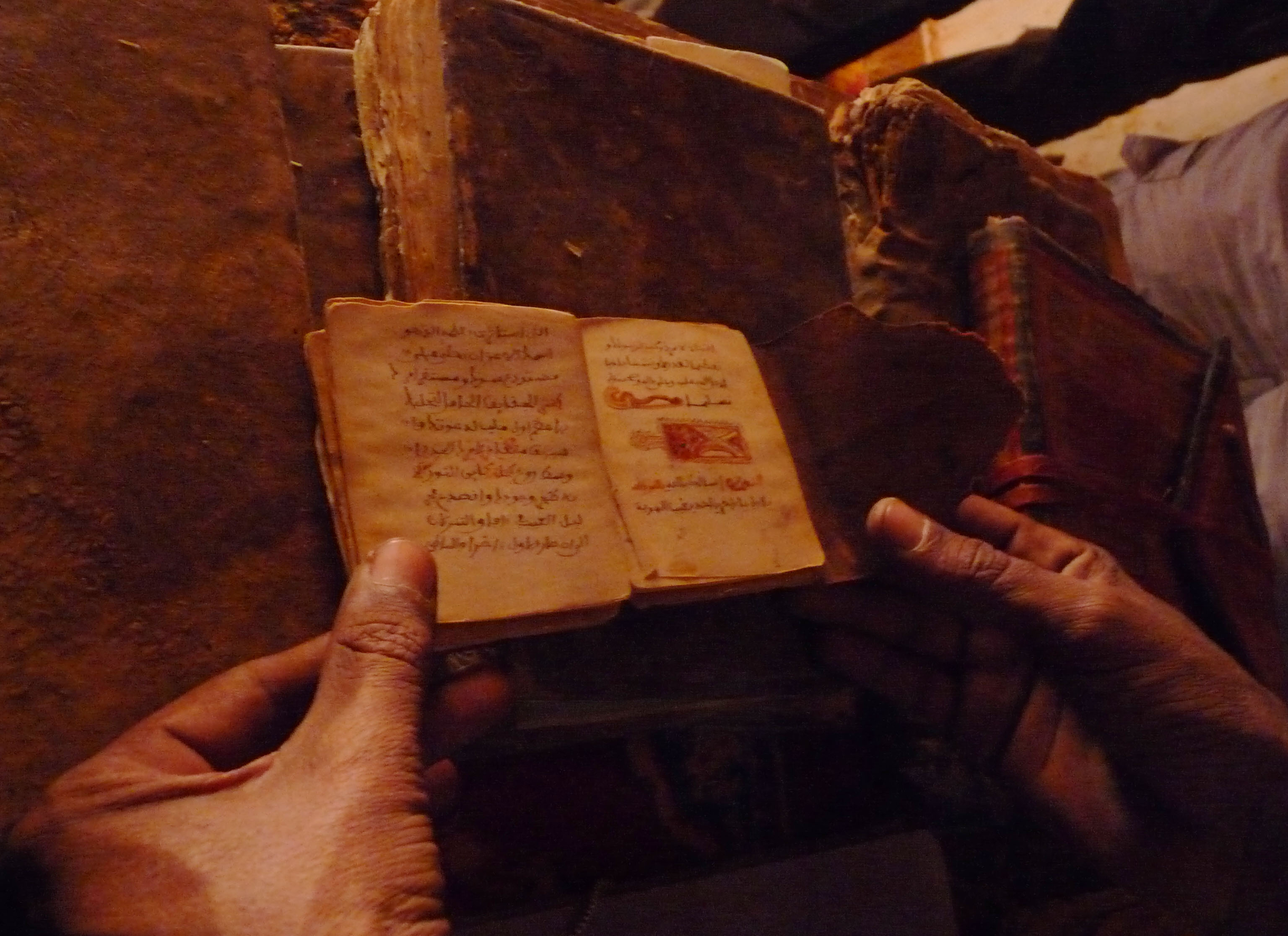 Old manuscript in Chinguetti library (Mauritania)